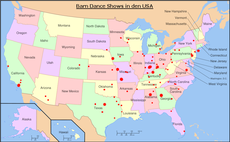 A map showing the barn dance stage shows in the USA.